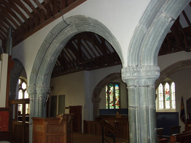 North aisle arches, St Gennys church The north aisle was added in the 15th Century. A card about the church published by the diocese says: "It is separated from the nave by a beautiful arcade of polyphant stone with unusually moulded arches resting on richly carved capitals."